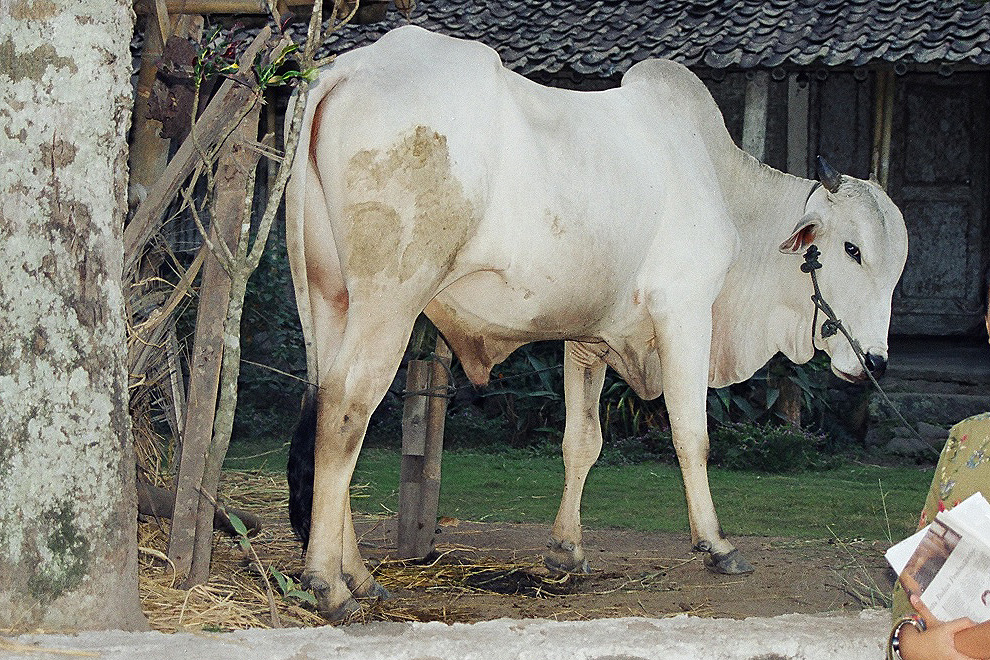 A cow in a village in Sleman, Java